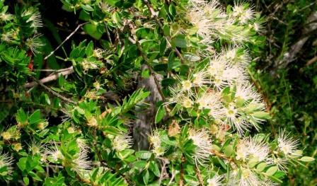 Tepú (Tepualia stipularis), en Quinched, Chonchi, Chile